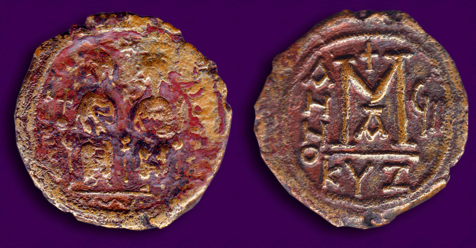 Byzantine copper alloy 40 ("M") Nummiae coin; Seated Justin II (left) and his wife Sophia (right) on obverse. Minted in 572 AD (ANNO VII) in Cyzicus (Mint mark "KYZ"), an ancient town of Mysia in Anatolia in the current Balıkesir Province of Turkey